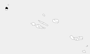 Map of the Azores highlighting Santa Cruz das Flores.